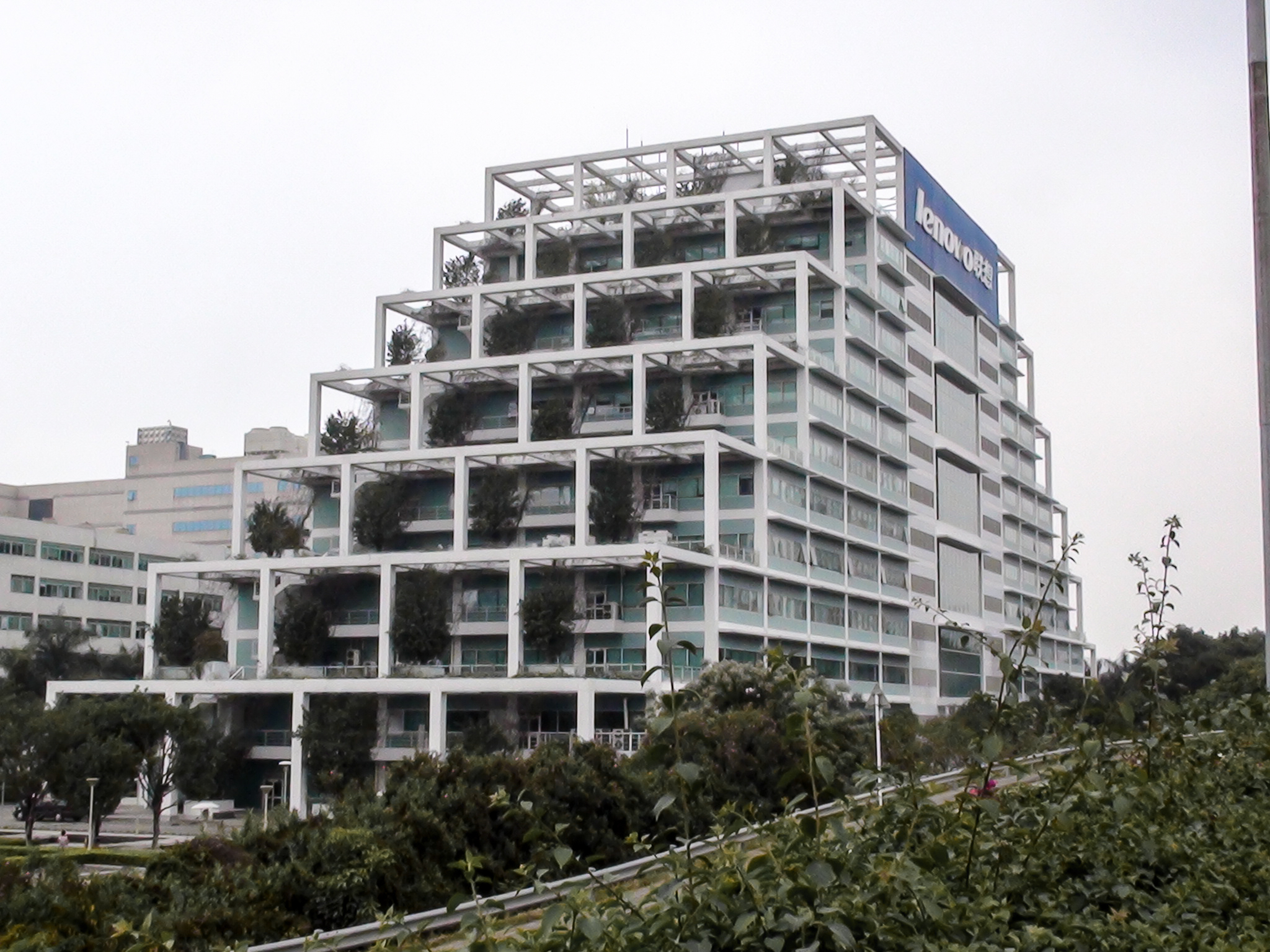 深圳南山zh:科技園聯想大廈, 深圳联想研发大楼